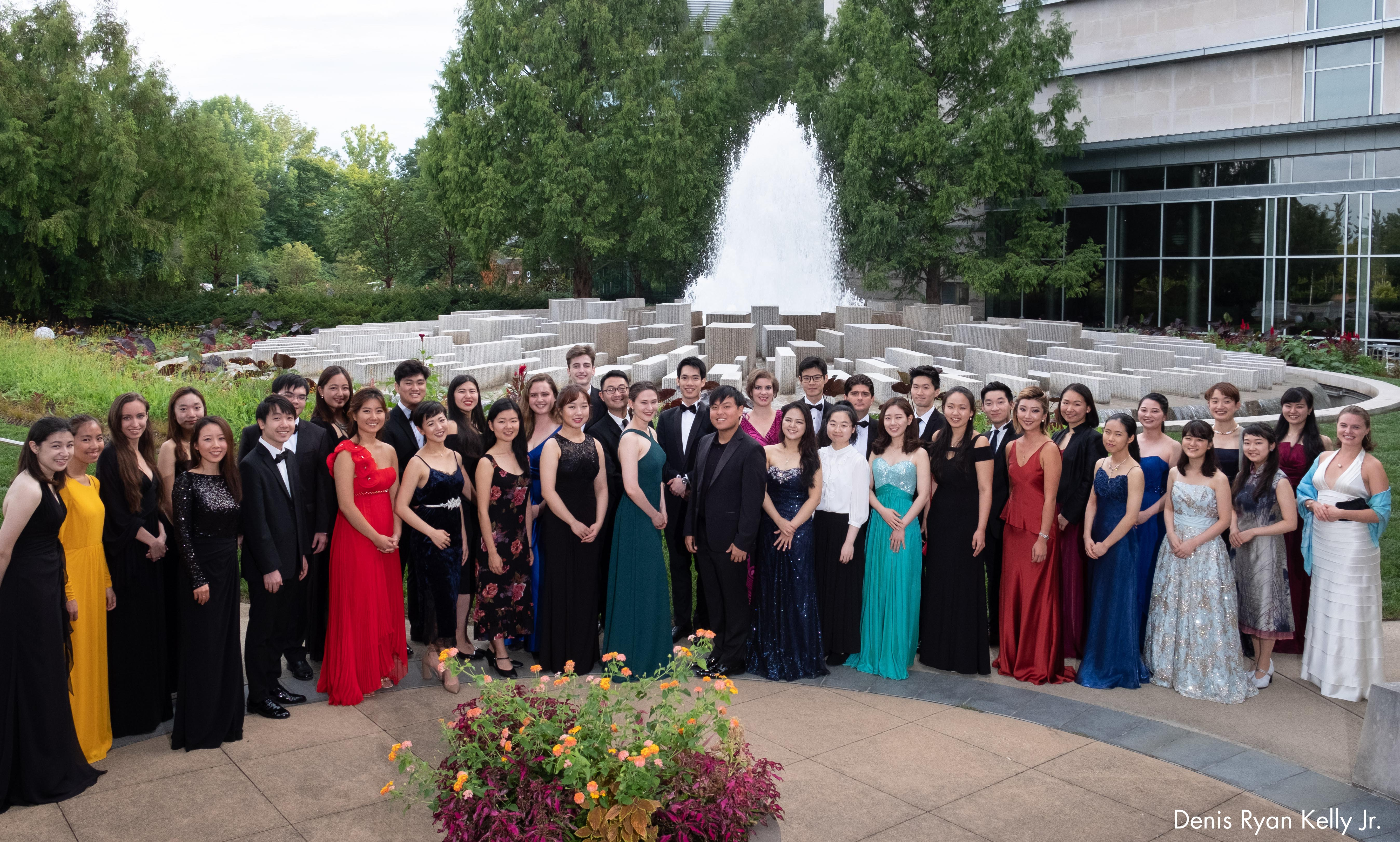 10th Quadrennial IVCI Participants - September 2018 / Photo by Denis Ryan Kelly Jr. / Published with permission